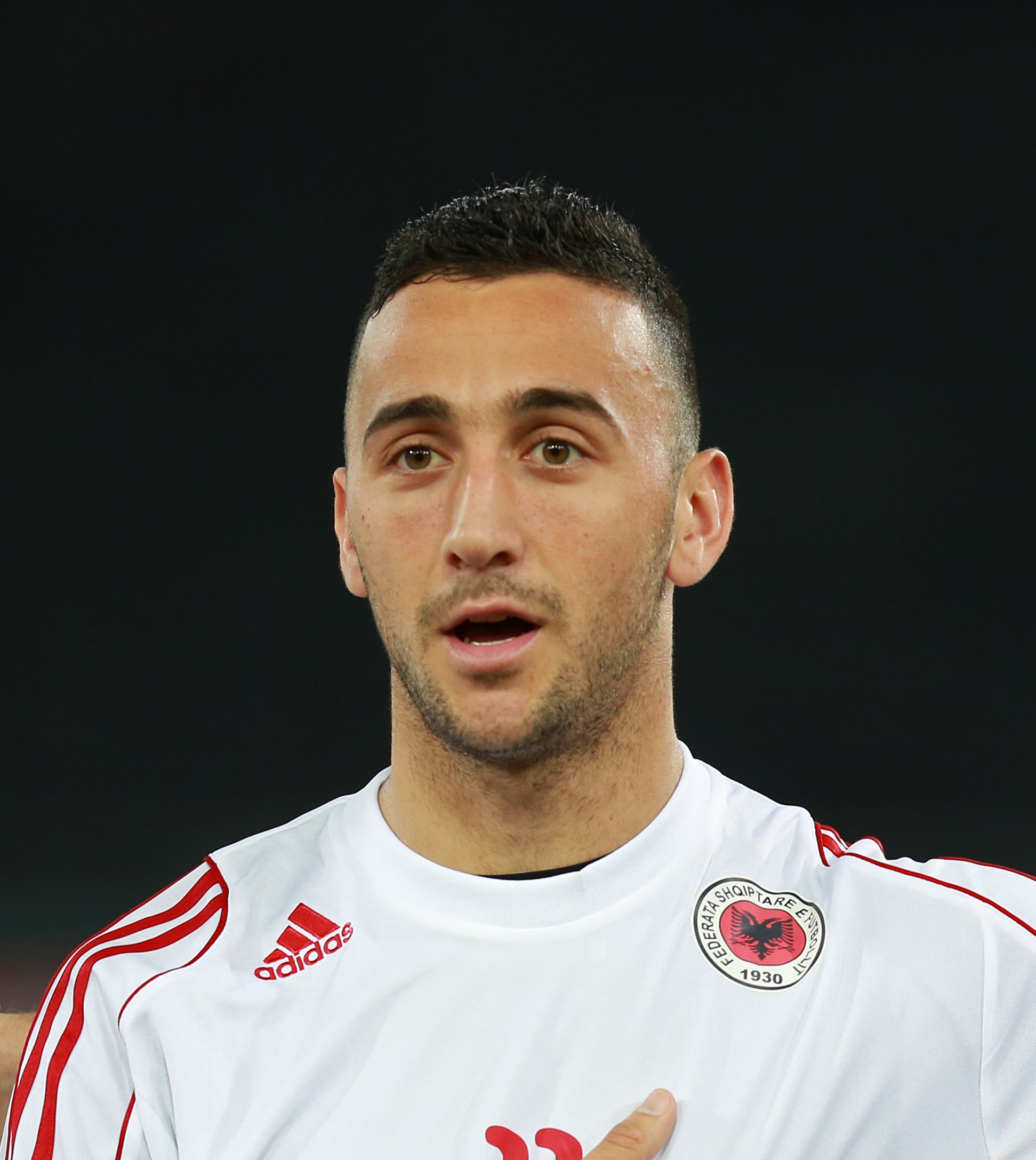 Mario Morina at national under-21 football game Albania vs. Austria in Graz, UPC Arena, 5. March 2014